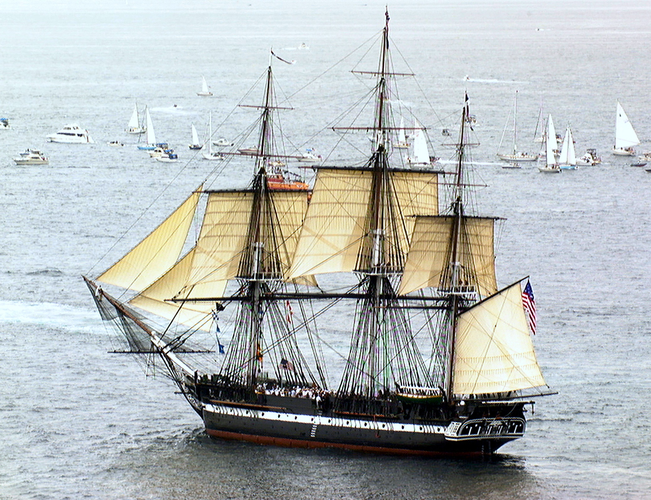 Navy photo of USS Constitution under sail for the first time in over a century